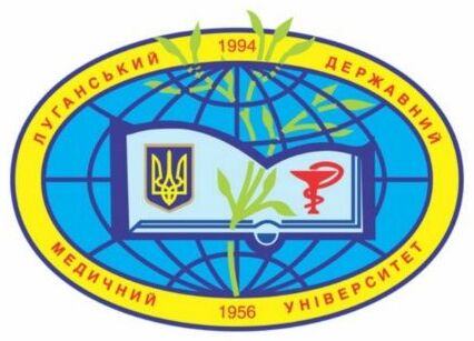 SE Lugansk State Medical University Logo